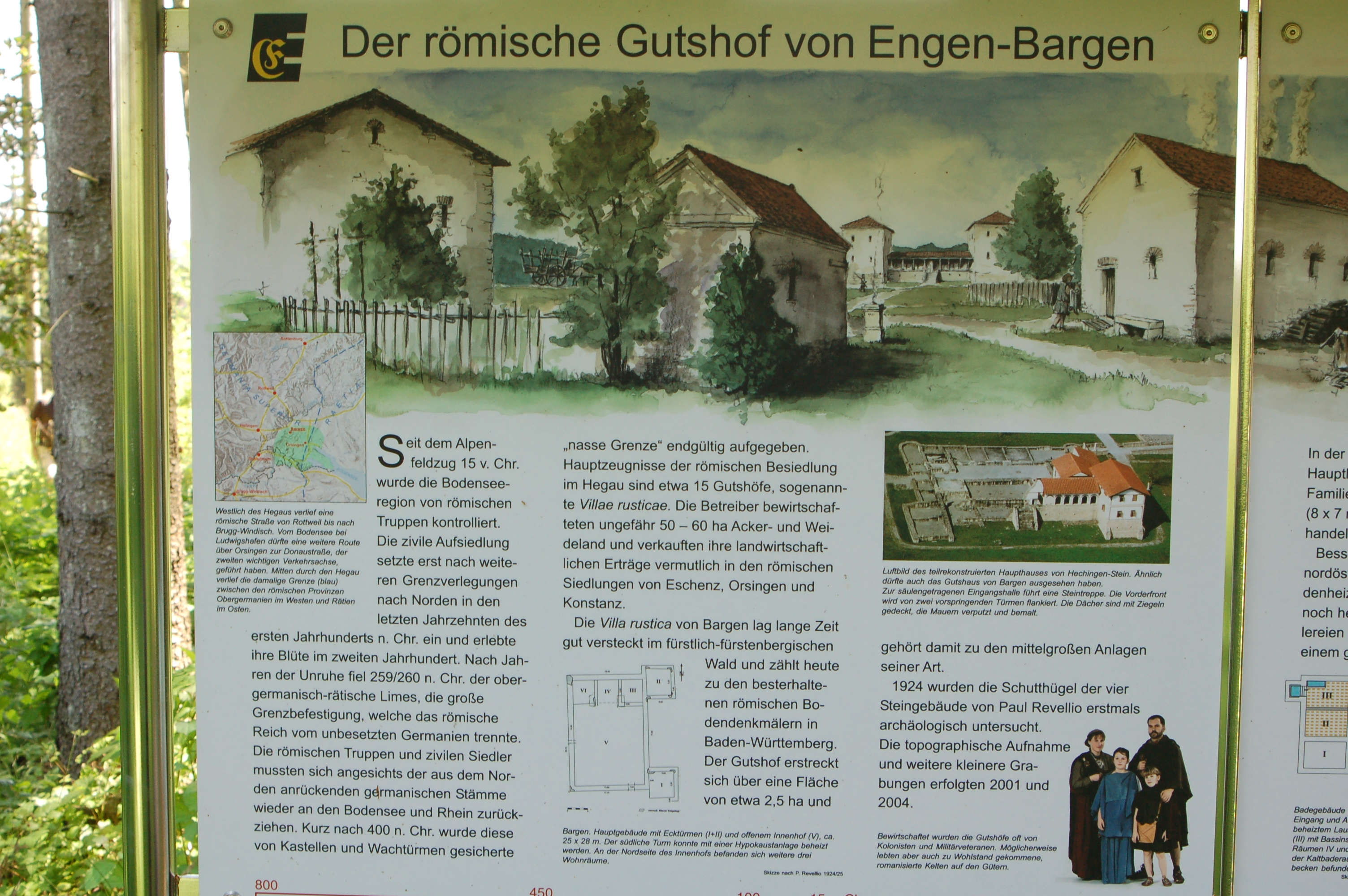 Information board at the roman farmstead at Engen-Bargen, Germany